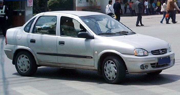 Buick Sail (Chinese-built Opel Corsa sedan) in Suzhou, Jiangsu province